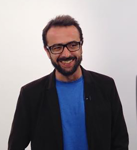 Evandro Angerami